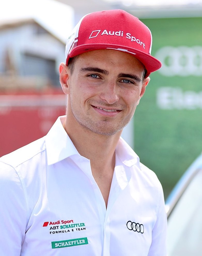 Nico Müller talking with fans at an Audi eTron event during the FIA Formula E 2019 New York E-Prix